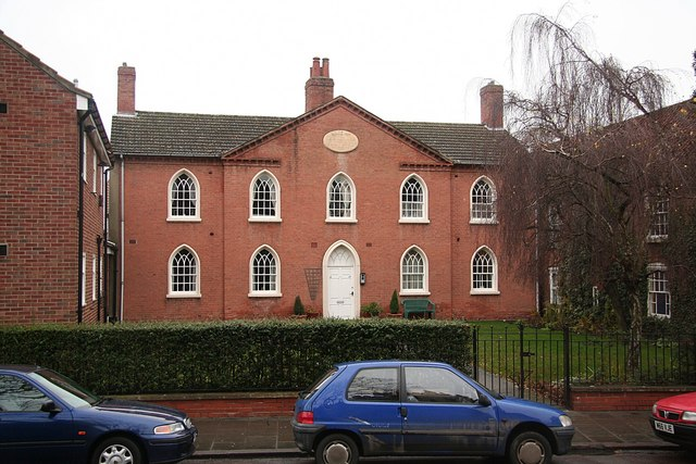 Mease de Dieu Sloswicke's Hospital in Churchgate, almshouses founded in 1657 by the will of Richard Sloswicke for "six poore old men", rebuilt 1806 in Regency Gothick and further altered in 1819.